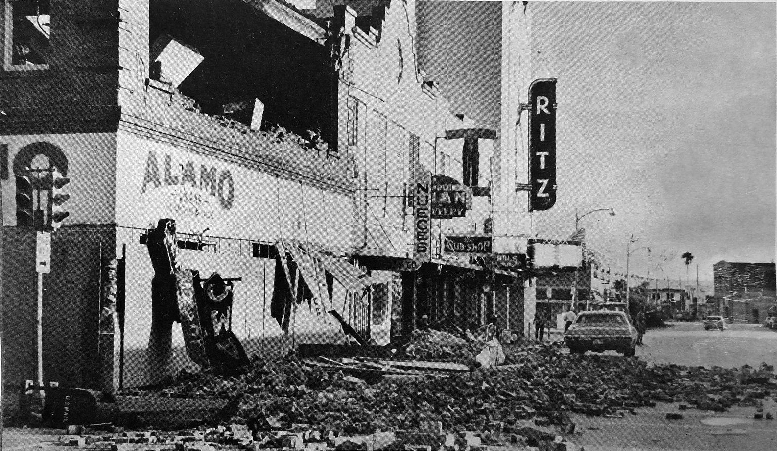 Alamo Loan, Corpus Christi, Texas, after Hurricane Celia